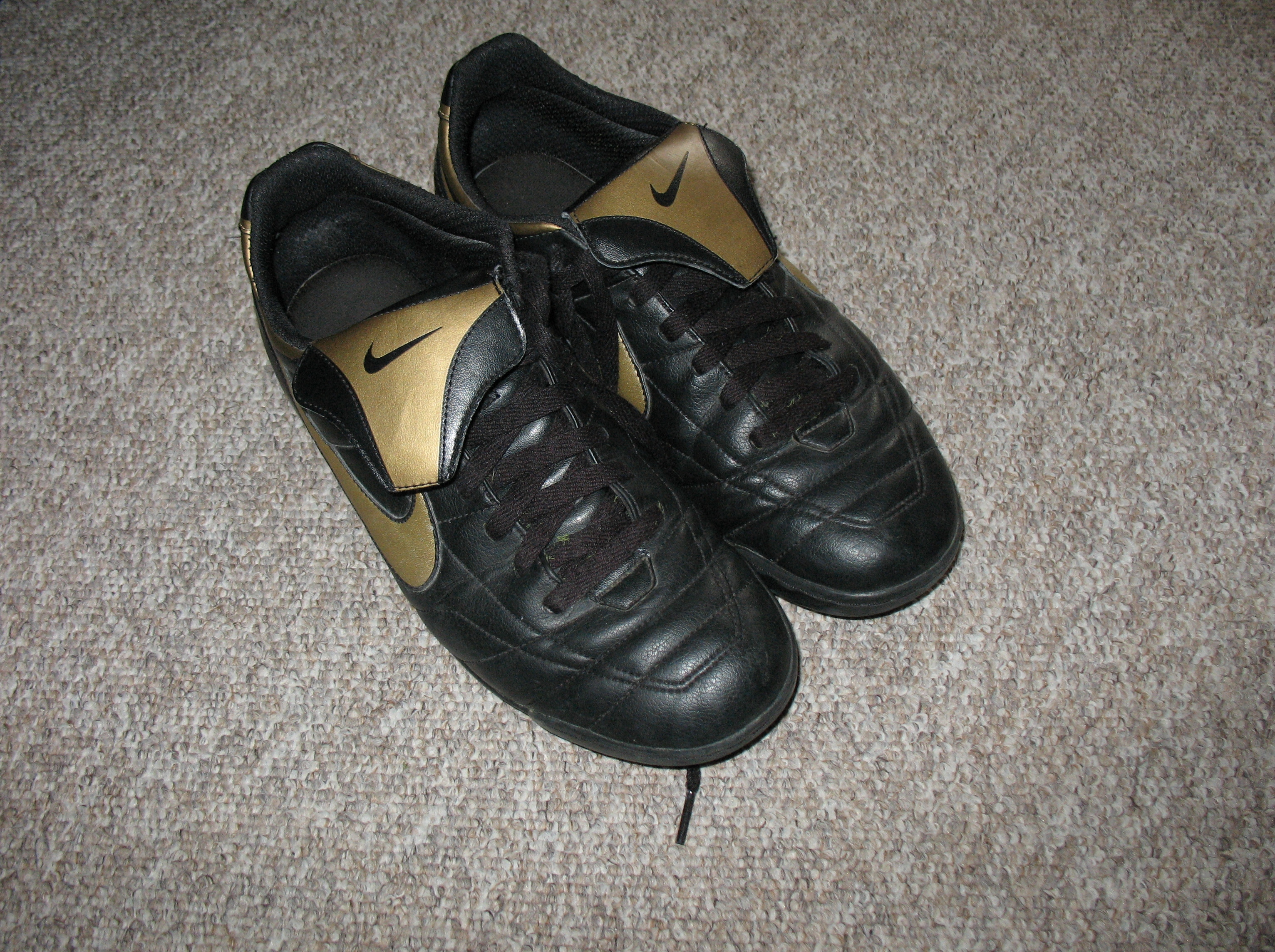 shoes of the company Nike (Schuhe der Marke Nike)